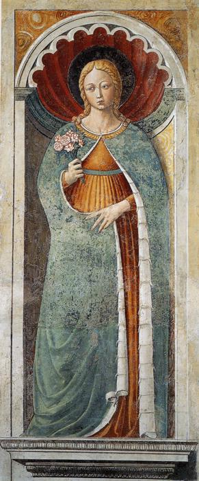 Description: St. Fina Author: Benozzo Gozzoli Details: 1464/65. Pillar. Apsidal Chapel of Sant' Agostino, San Gimignano.